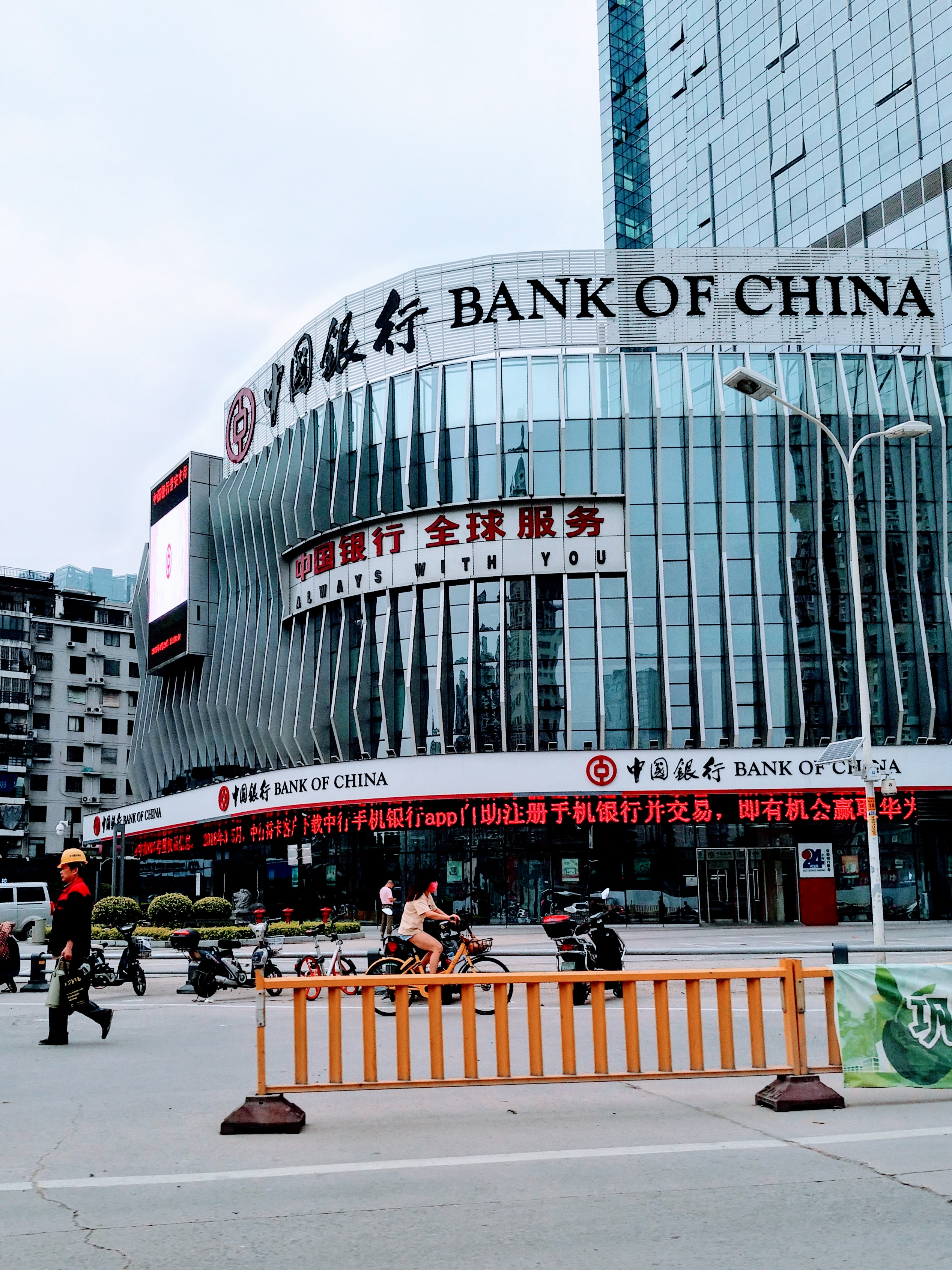 Bank of China, Fuzhou Jin'an Sub-branch located, in Jin'an, Fuzhou.